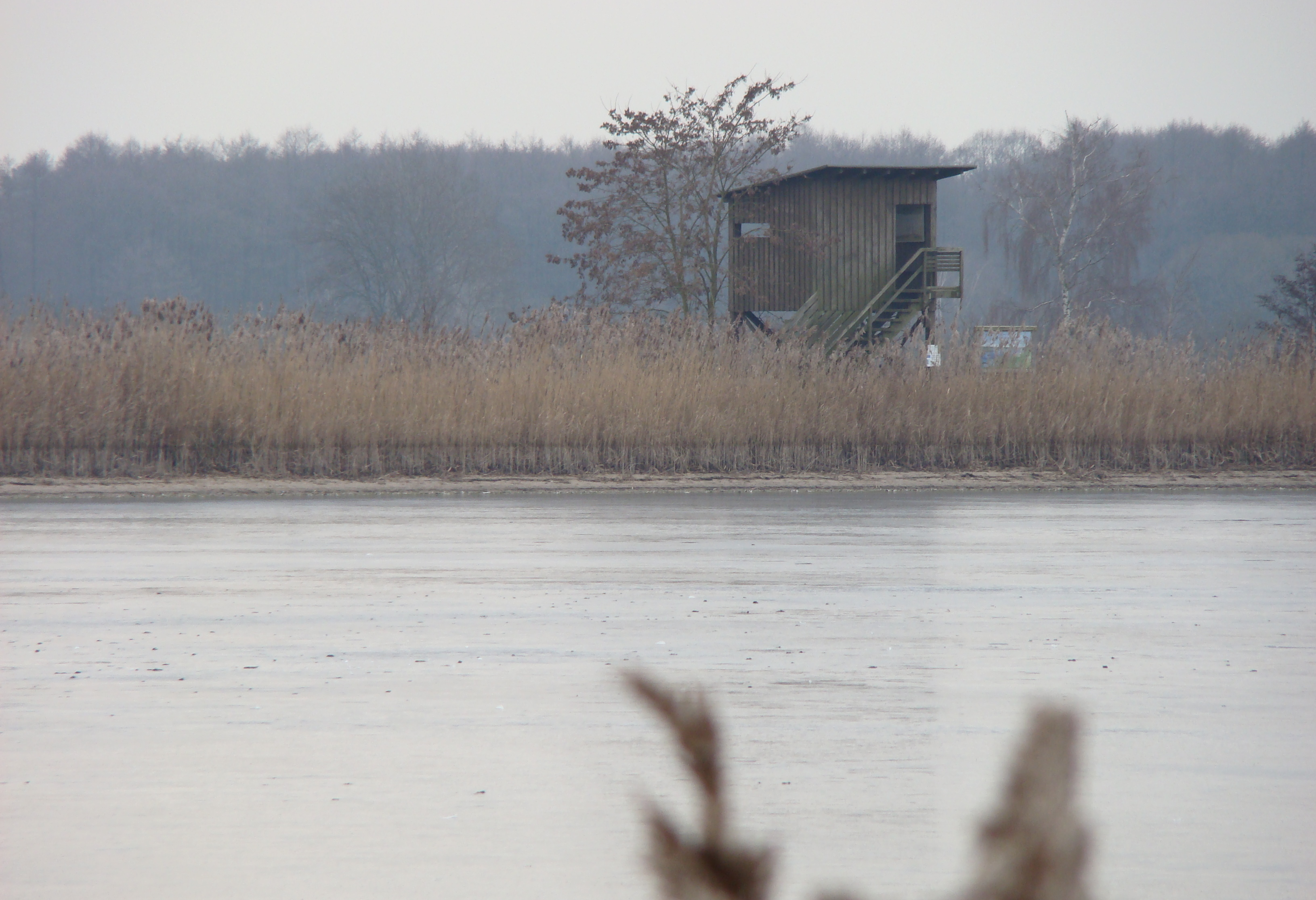 Bird hide on the banks of a pond at Meißendorf Lakes, Lower Saxony, Germany.